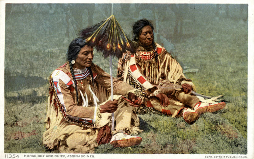 Horse Boy and Chief, Assinaboines